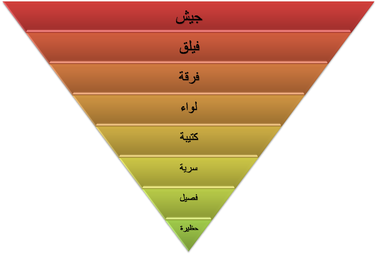 Graph to explain the size structure in the Army of Saudi Arabia